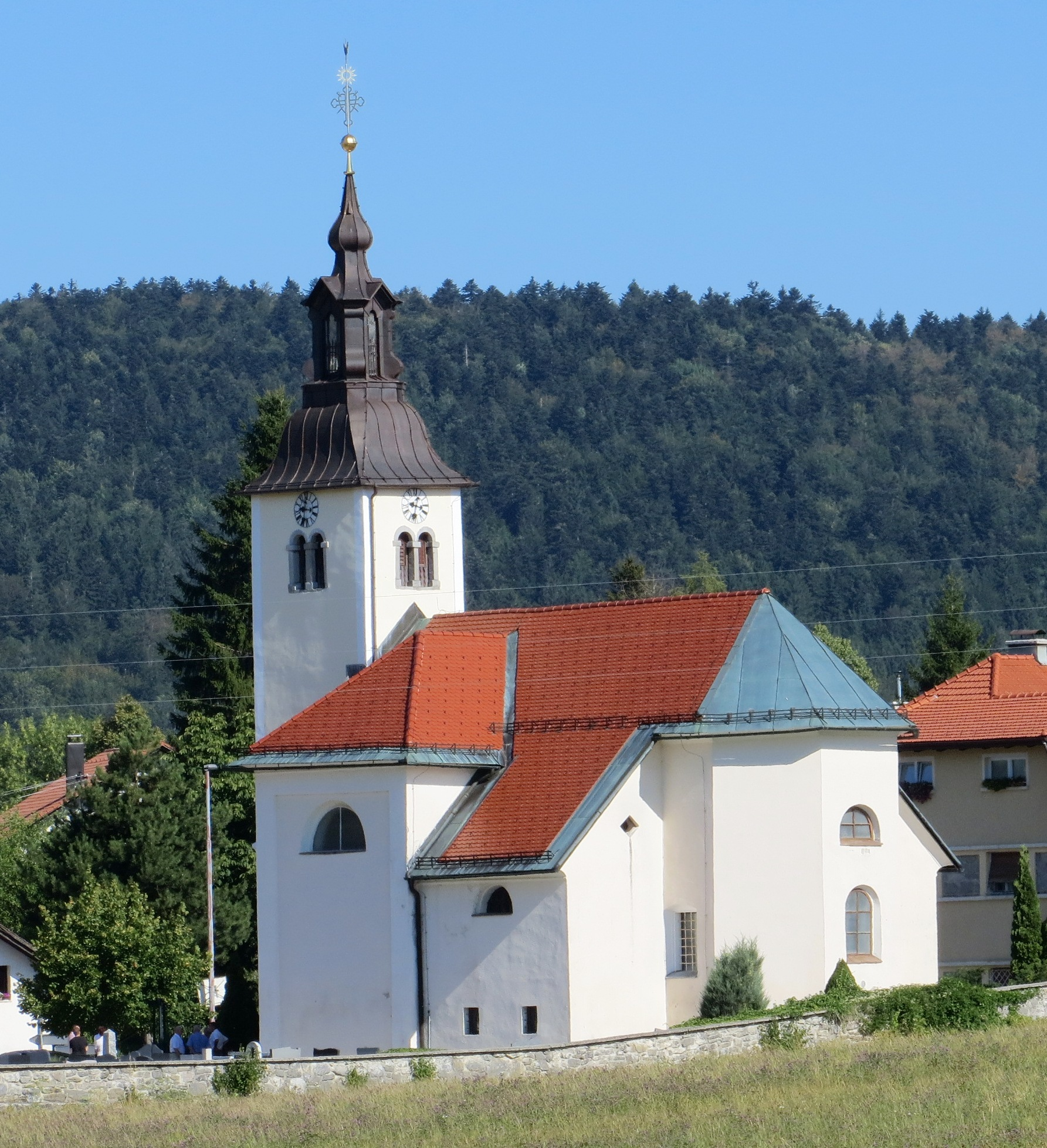 Church in Rakitna, Municipality of Brezovica, Slovenia